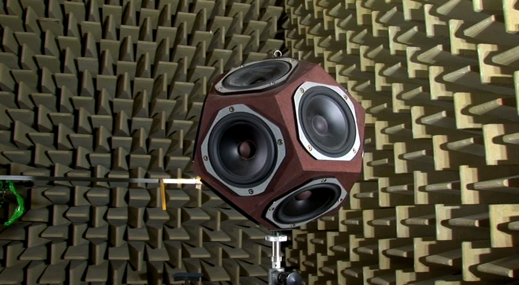 artificial omni-directional sound source in anechoic acoustic chamber, Czech Technical Univerzity In Prague, Faculty of Electrical Engineering, Department of Physics